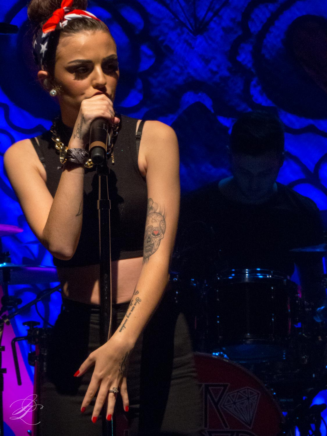 Cher Lloyd performs during her show at The Bluebird in Denver, CO on September 18, 2013.